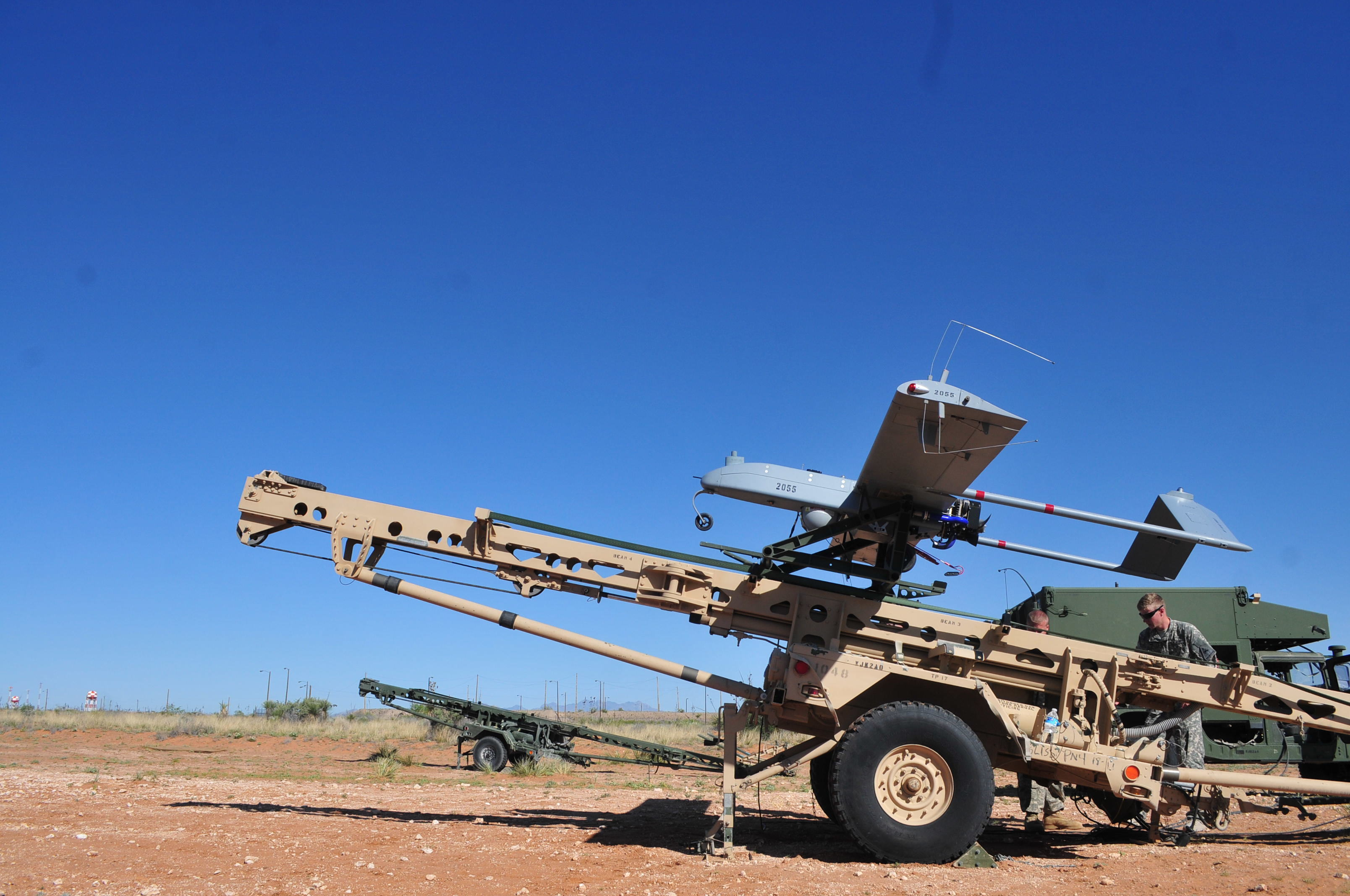 An RQ-7B version 2 Shadow unmanned aerial vehicle is readied for launch by Soldiers of 3rd Squadron, 6th Cavalry Regiment, Combat Aviation Brigade, 1st Armored Division, at McGregor Range, N.M., April 15. The flight is one of many being conducted by 3rd Squadron as part of its six-month tiered operator training program since receiving the drones in January. (U.S. Army photo by Sgt. Alexander Neely, Combat Aviation Brigade Public Affairs, 1st Armored Division)